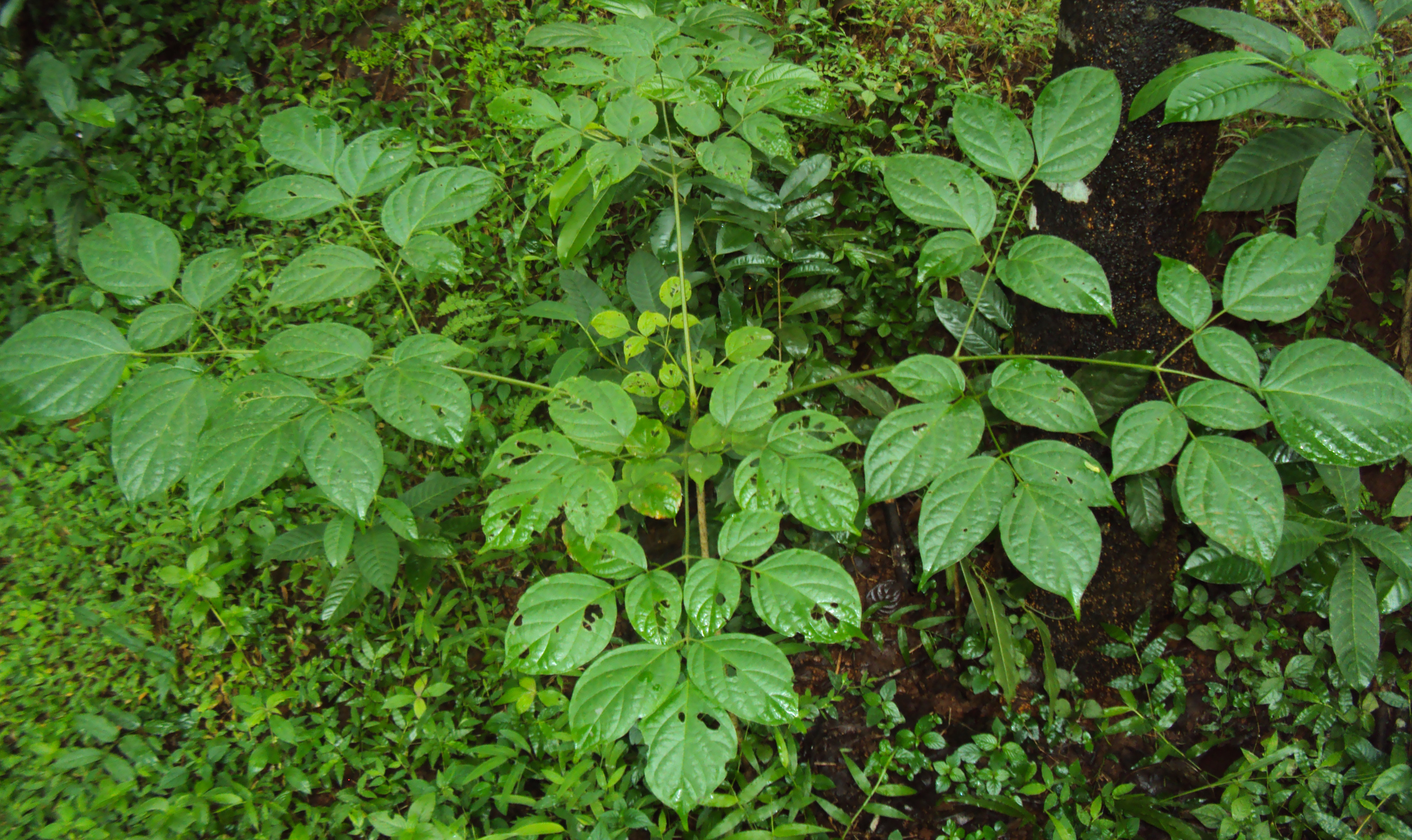 Oroxylum indicum leaves - പലകപ്പയ്യാനി